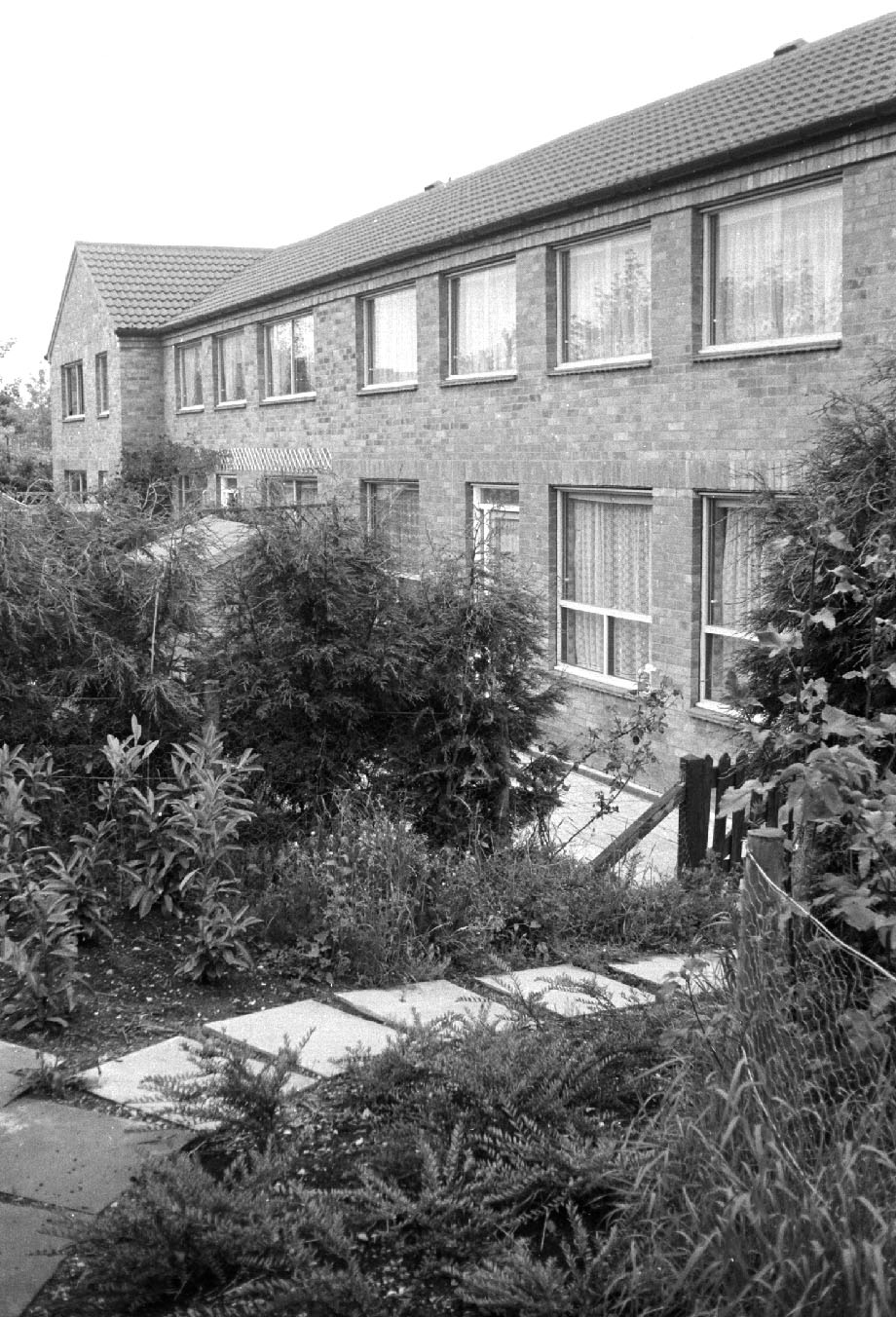 Pennyland low energy houses photographed soon after construction in the 1980s